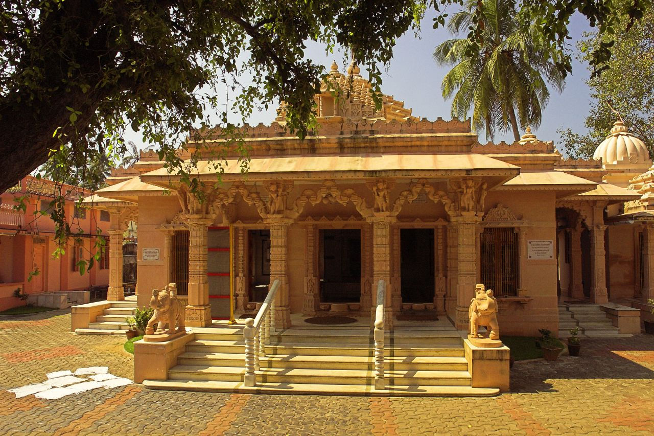 A Jain Temple in the old part of Fort Cochin. Since they are feeding doves regularly here, tons of birds are flying around the temple, usually. Ein Jain Tempel im alten Teil von Fort Cochin. Hier werden Tauben noch gefüttert, und daher wimmelt es hier teilweise von Vögeln.